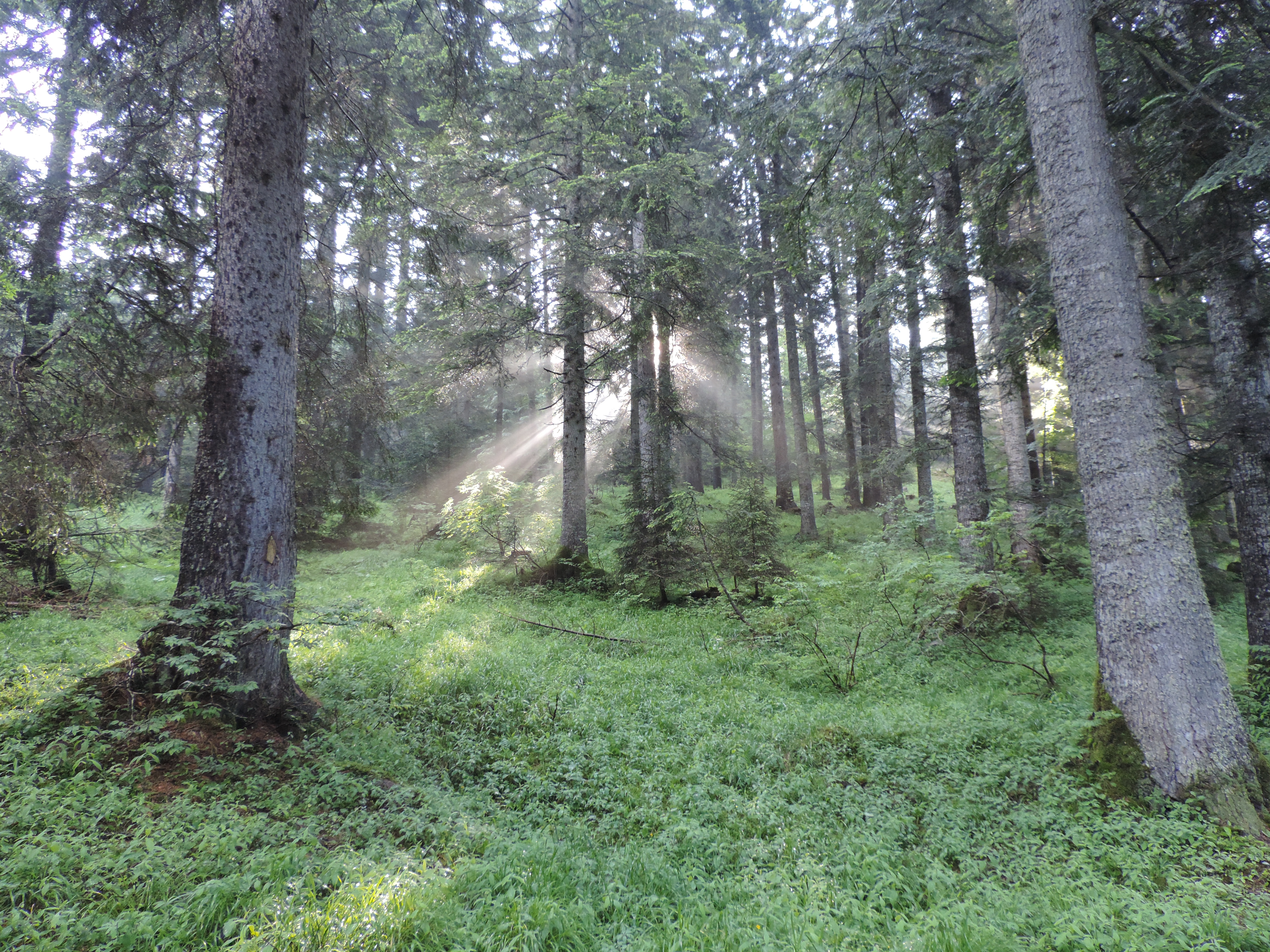 Alps: Altopiano dei Sette Comuni: Bosco del Dosso, taken by E. Romanazzi